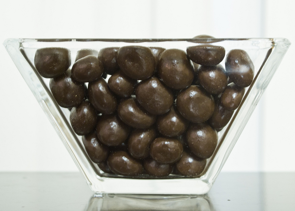 A jar of coffee-covered chocolate beans